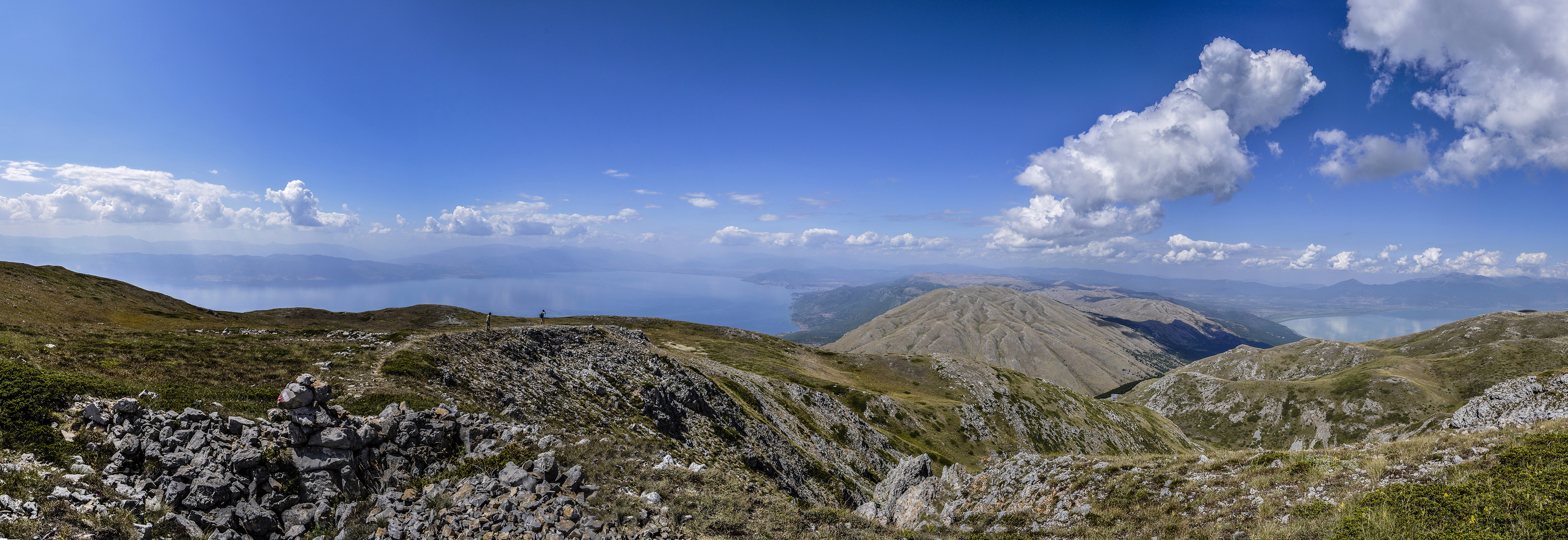 A view of Lake Ohrid (left) and Lake Prespa (right) from the mountain Galičica in the Republic of Macedonia.